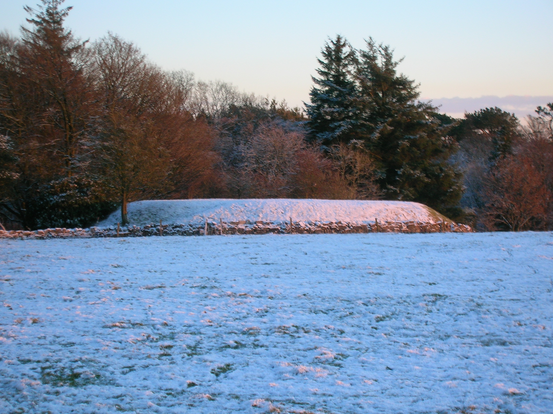 The Chapel Hill at Chapeltoun from the road to Chapeltoun Mains. North Ayrshire, Scotland.